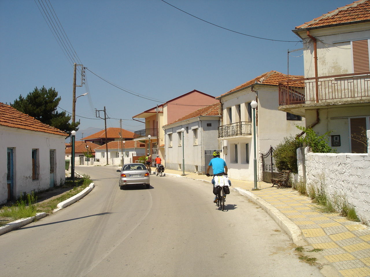 village of Vrbeni (Itea) in Aegean Macedonia, Florina Prefecture, Greece